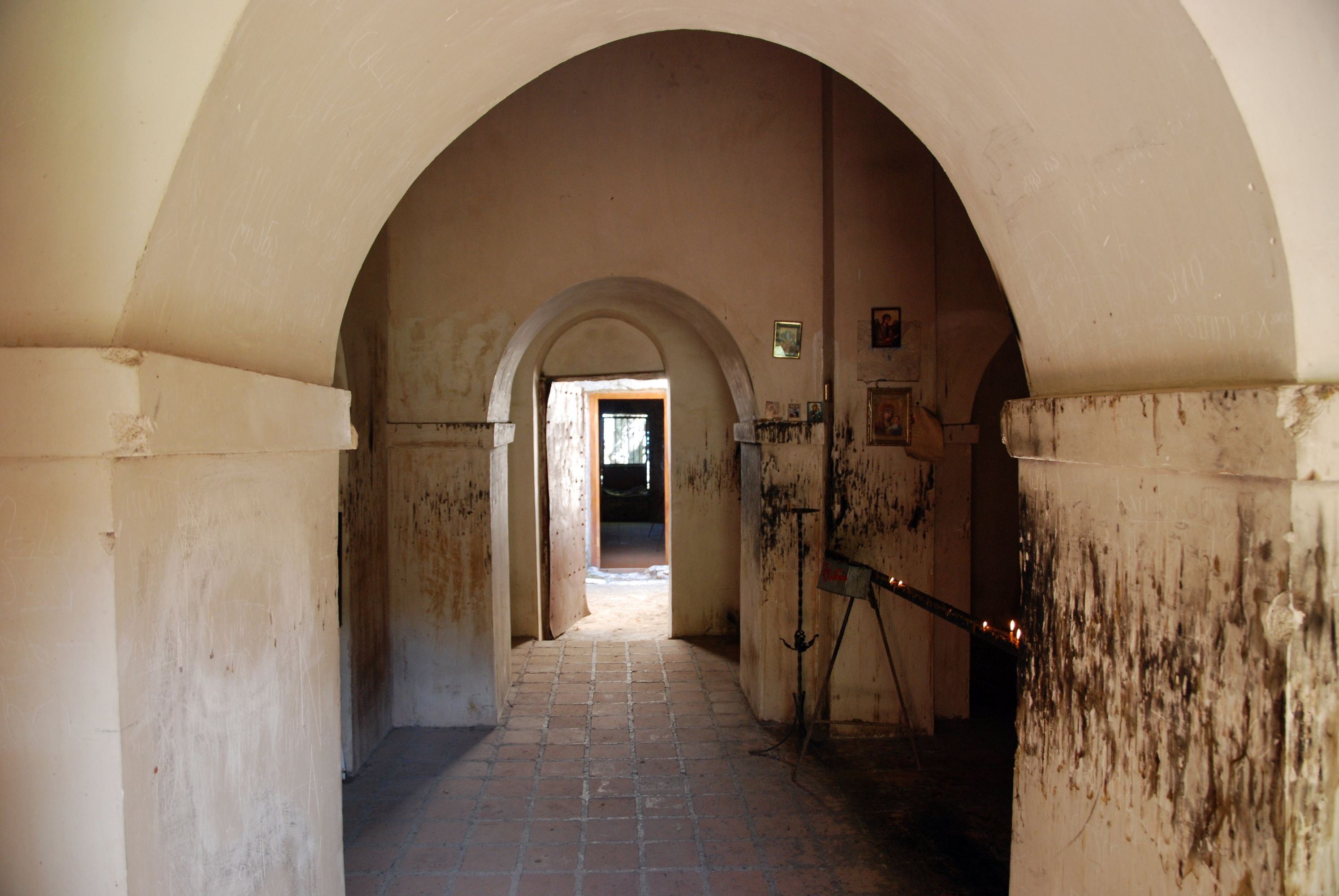 Old Shuamta, basilica south entrance